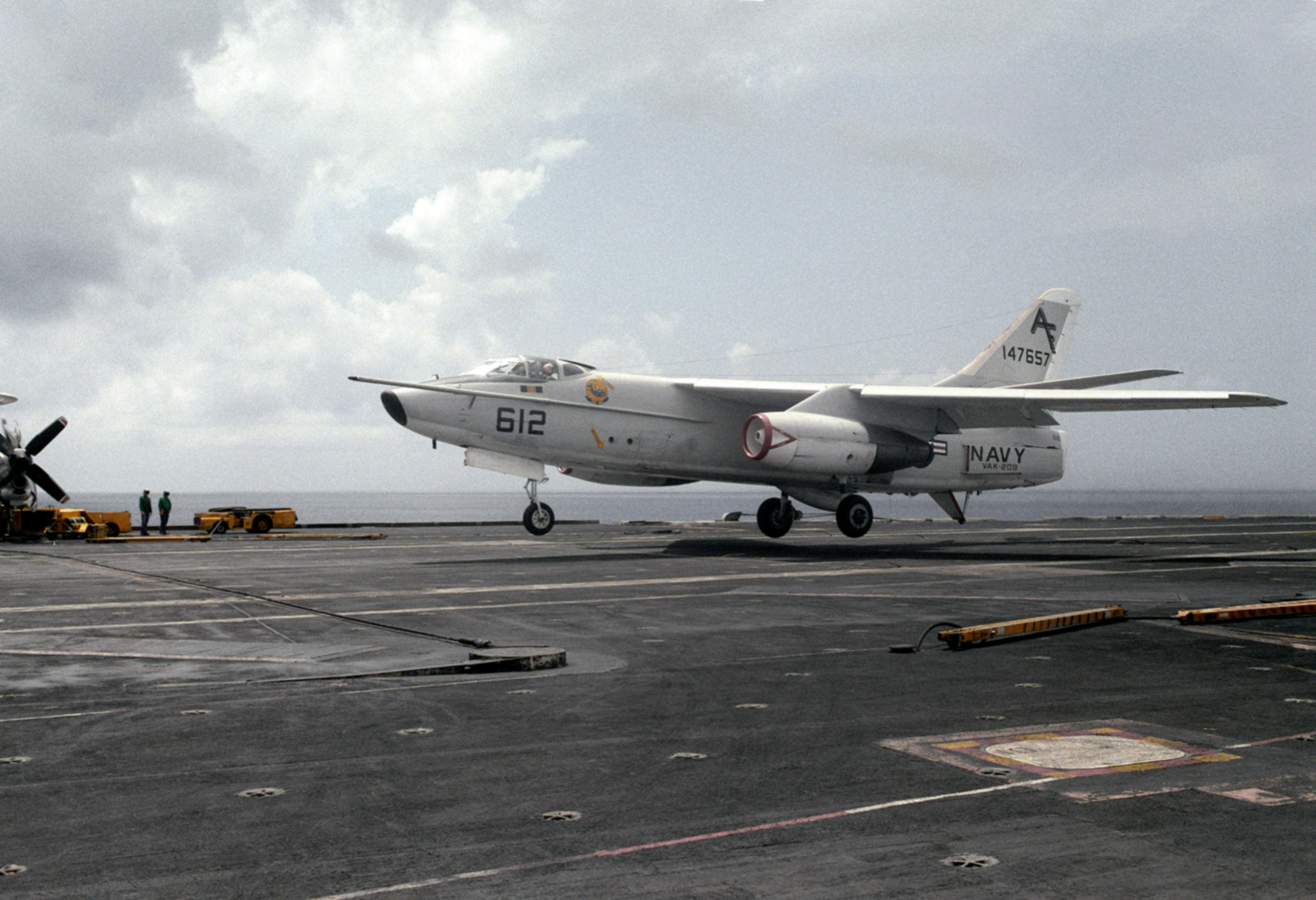 A U.S. Naval Air Reserve Dougals KA-3B Skywarrior (BuNo 147657) of Tactical Aerial Refueling Squadron VAK-208 during a touch and go landing on the flight deck of the aircraft carrier USS Dwight D. Eisenhower (CVN-69), in 1985.